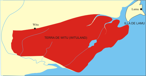 Map of Deutsch-Wituland ('German Wituland'), a short-lived (1885-1890) private colony